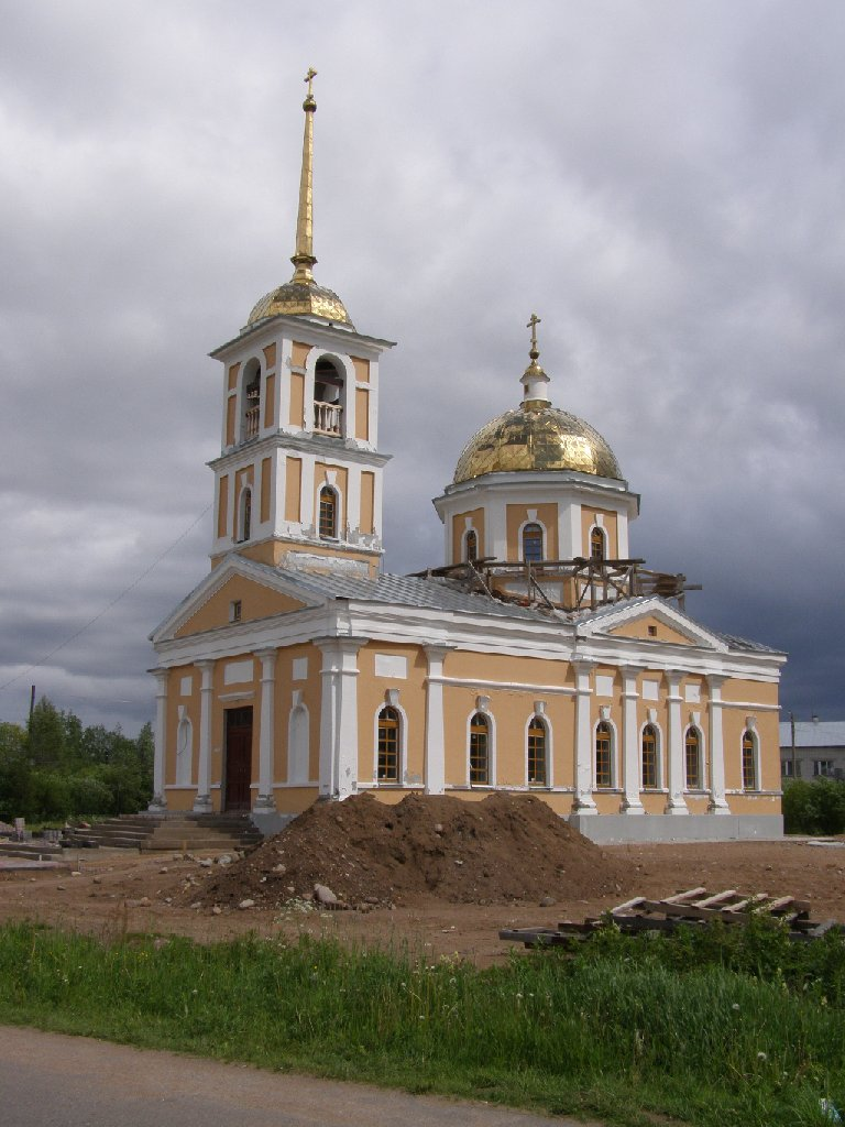 Church in Vidlitsa, Republic of Karelia